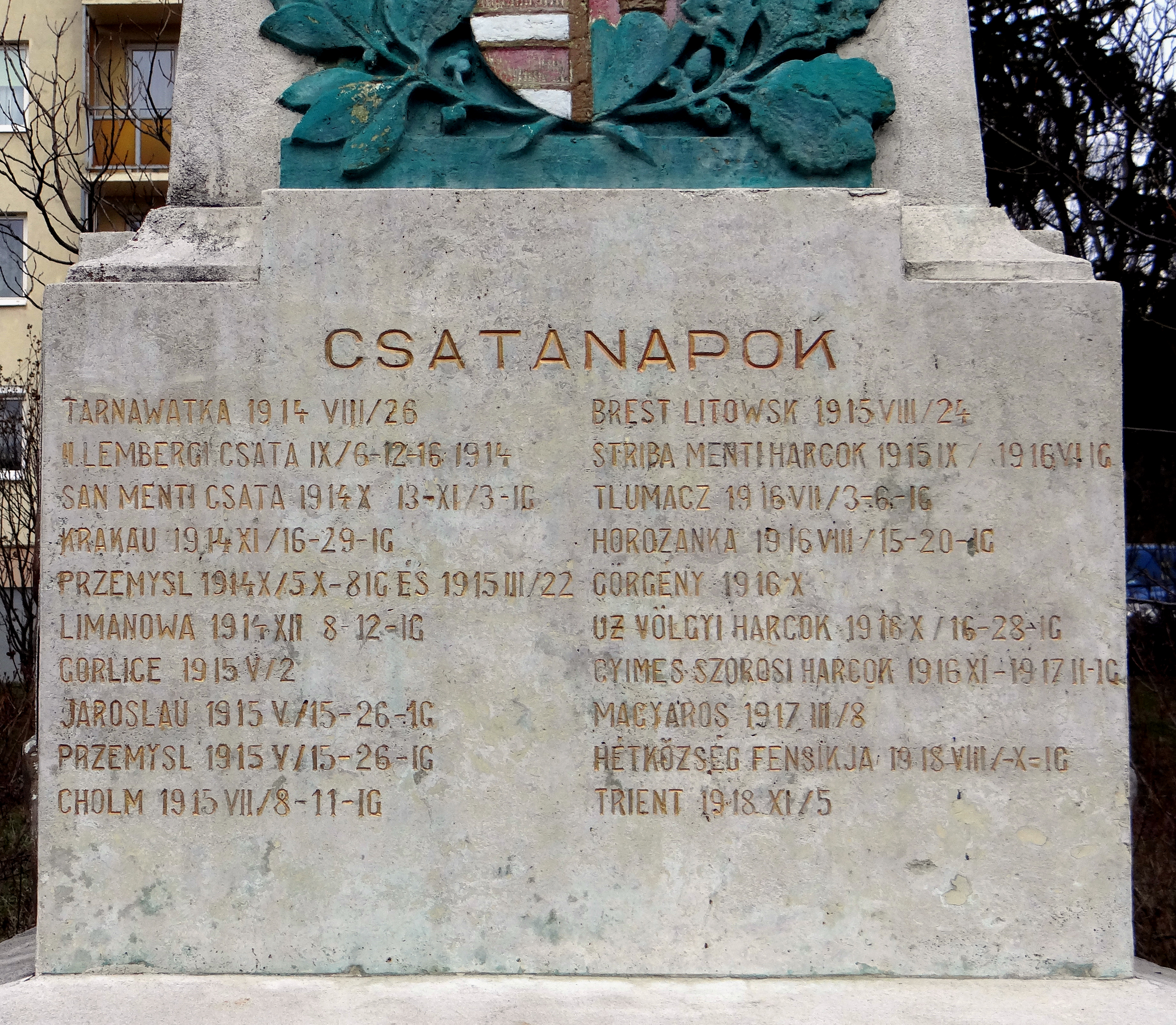 Battle Days on Tizes Honved Statue, Miskolc, Hungary